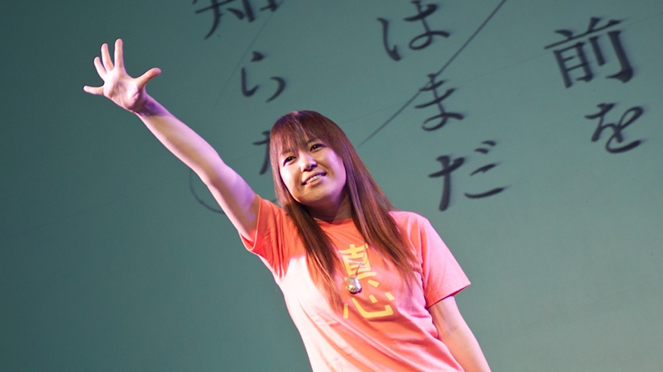 Director and screenwriter Mari Okada (岡田 麿里) at the 2011 Anime Festival Asia, photographed by Danny Choo